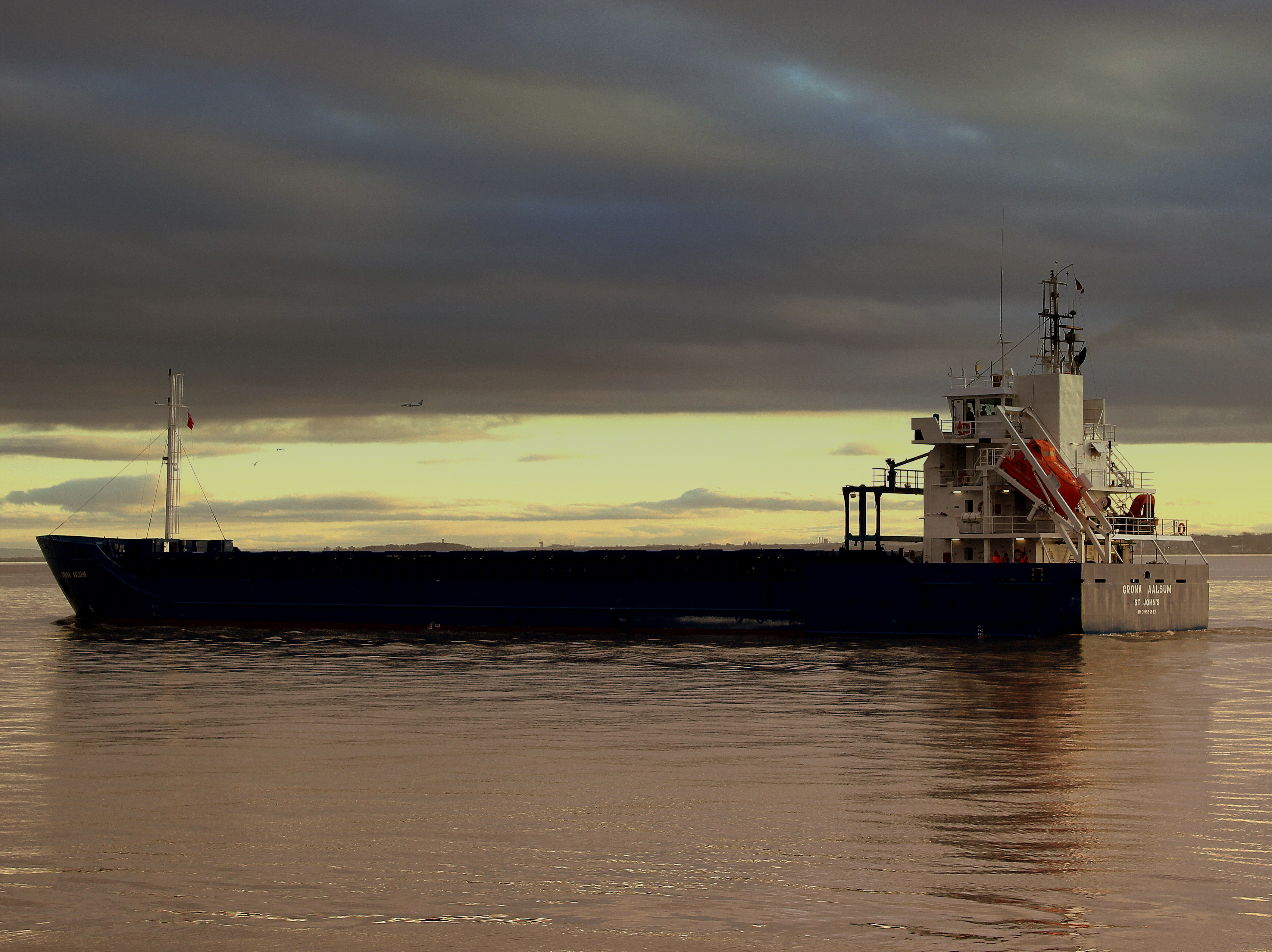 MV GRONA AALSUM OTTERSPOOL PROMANADE RIVER MERSEY LIVERPOOL JAN 2013